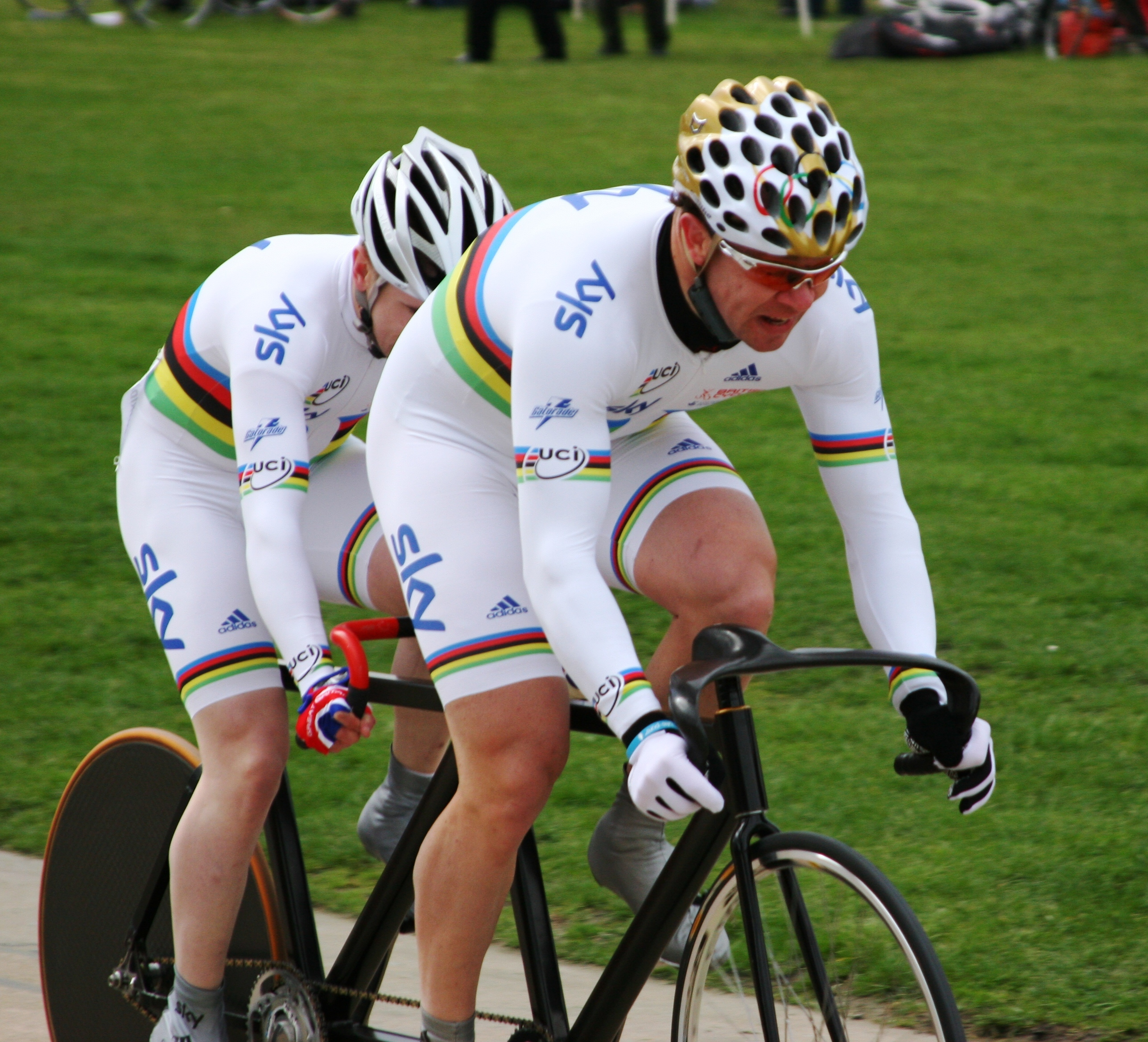 Barney Storey and Neil Fachie? Tandem 200m qualification. Herne Hill Good Friday 2010